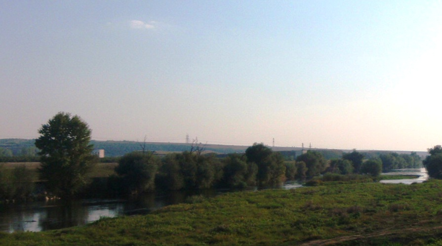 Ogosta river, between Glozhene and Mizia, Vratsa oblast in Bulgaria